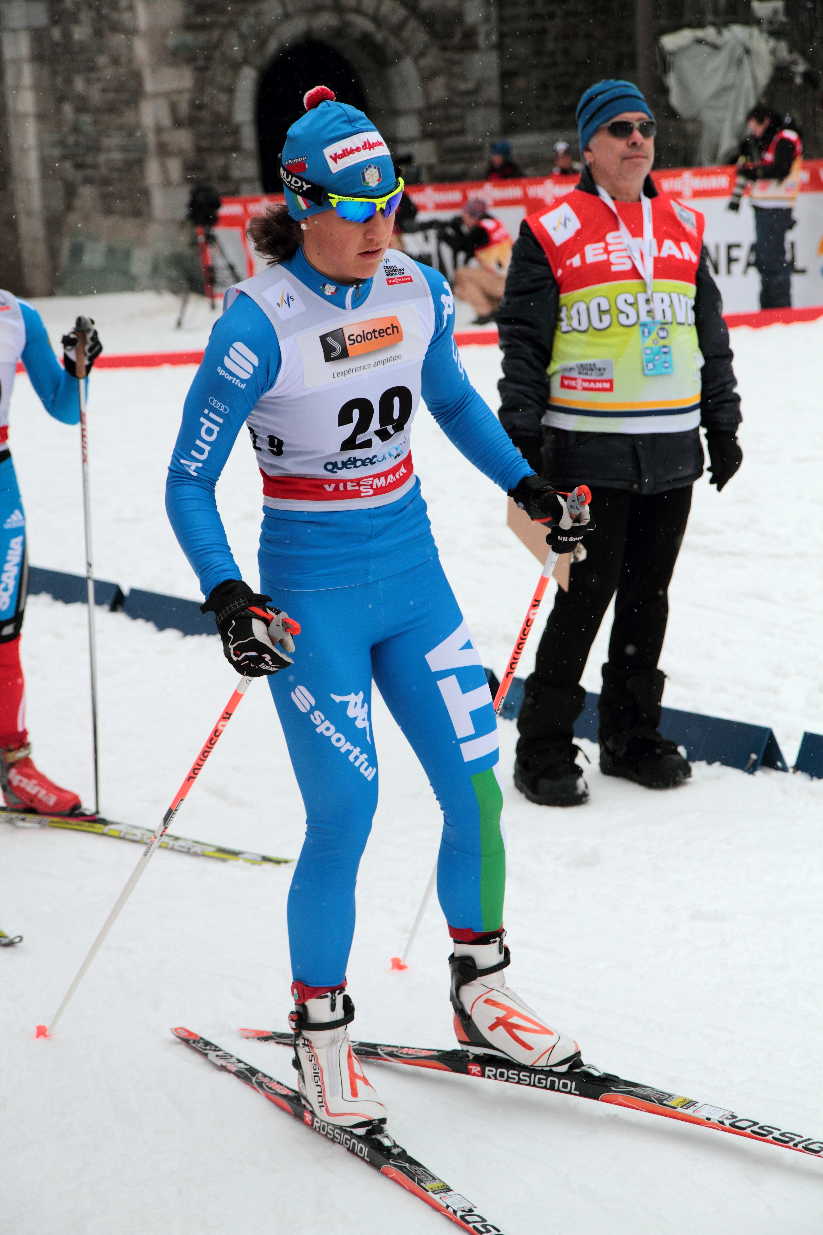 Greta Laurent, FIS Cross-Country World Cup 2012, Quebec, Canada.